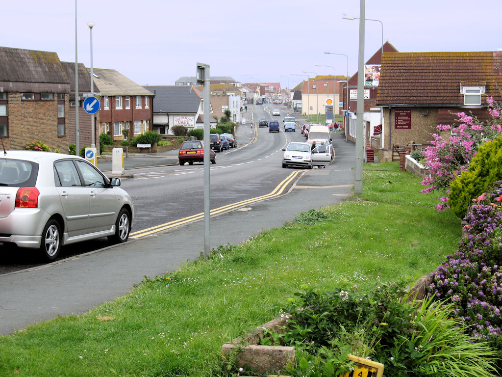 The A259 passing through Peacehaven, East Sussex